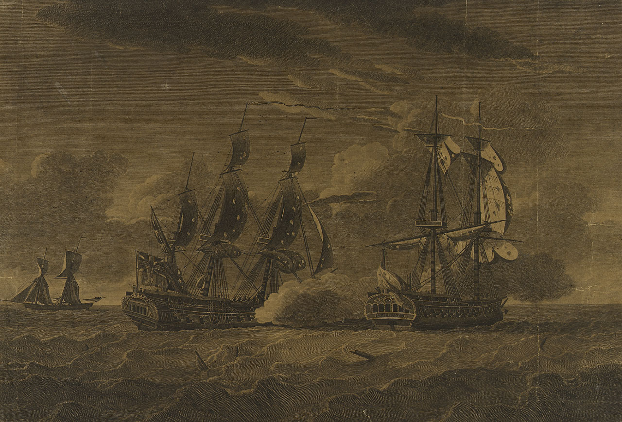 The Pearl Capt Montague taking L'Esperance 30 Sep 1780; engraving